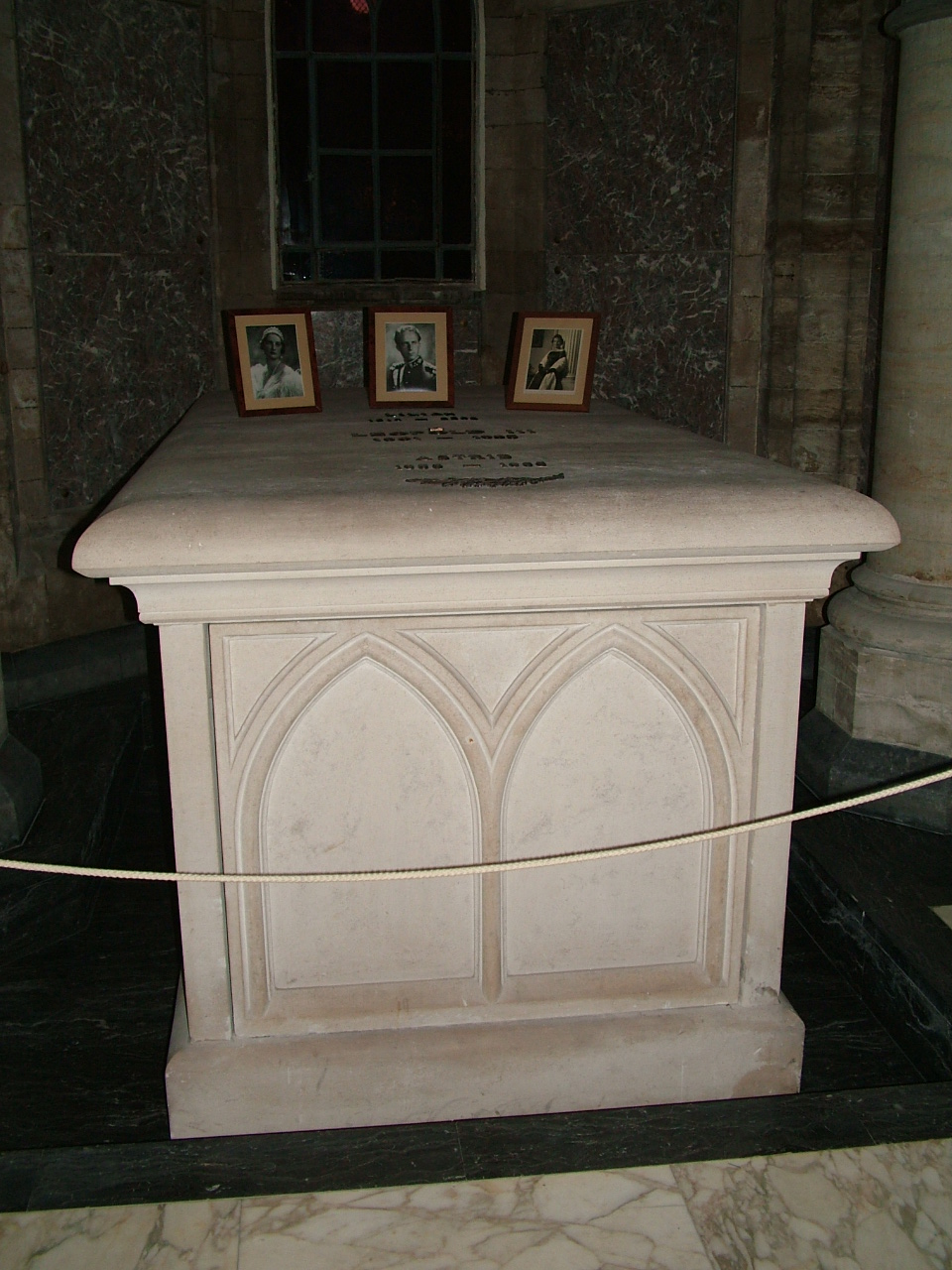 Tomb of Leopold III King of the Belgians and his Queens Astrid and Lilian